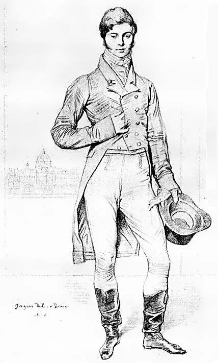 Sketch of Lord Grantham showing male attire